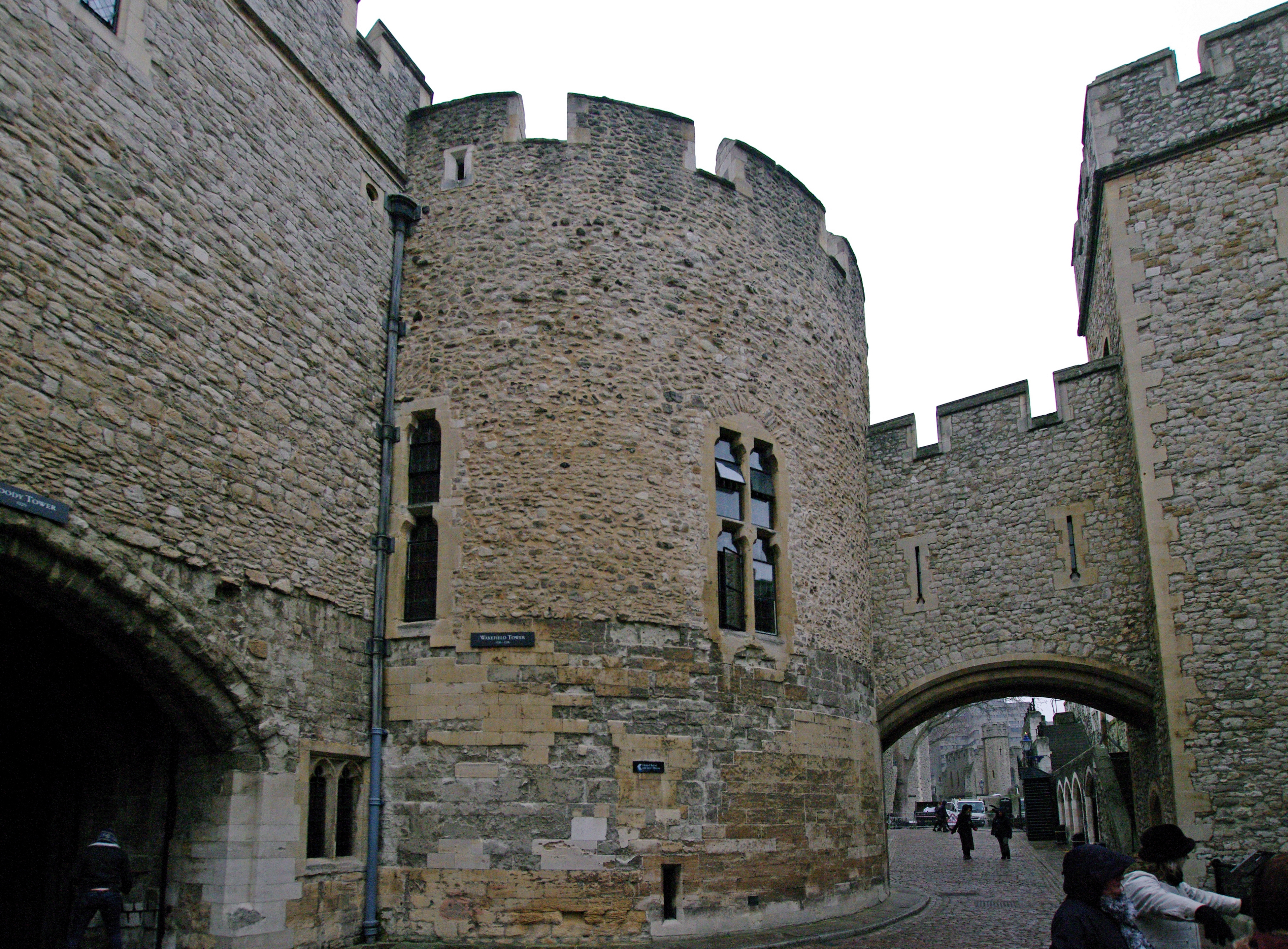 Wakefield tower seen from Water Lane at the tower of London